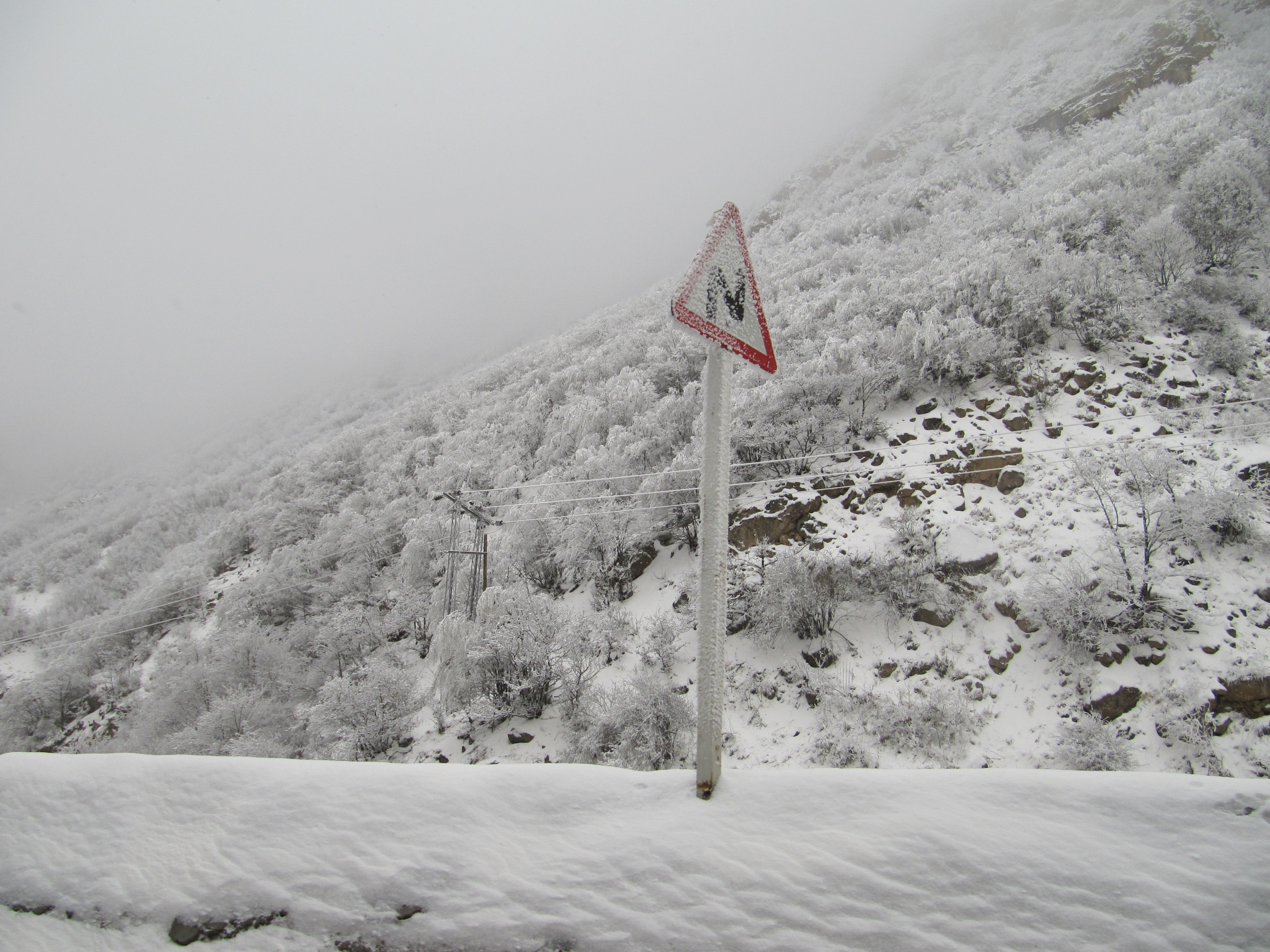 haraz road (winter)